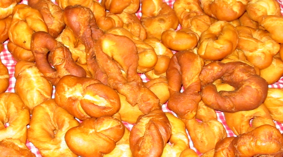 Jersey wonders; taken at La Faîs'sie d'Cidre, Hamptonne, Jersey 22 October 2006Jèrriais: des mèrvelles à La Faîs'sie d'Cidre, Hamptonne, Jèrri 22 d'Octobre 2006